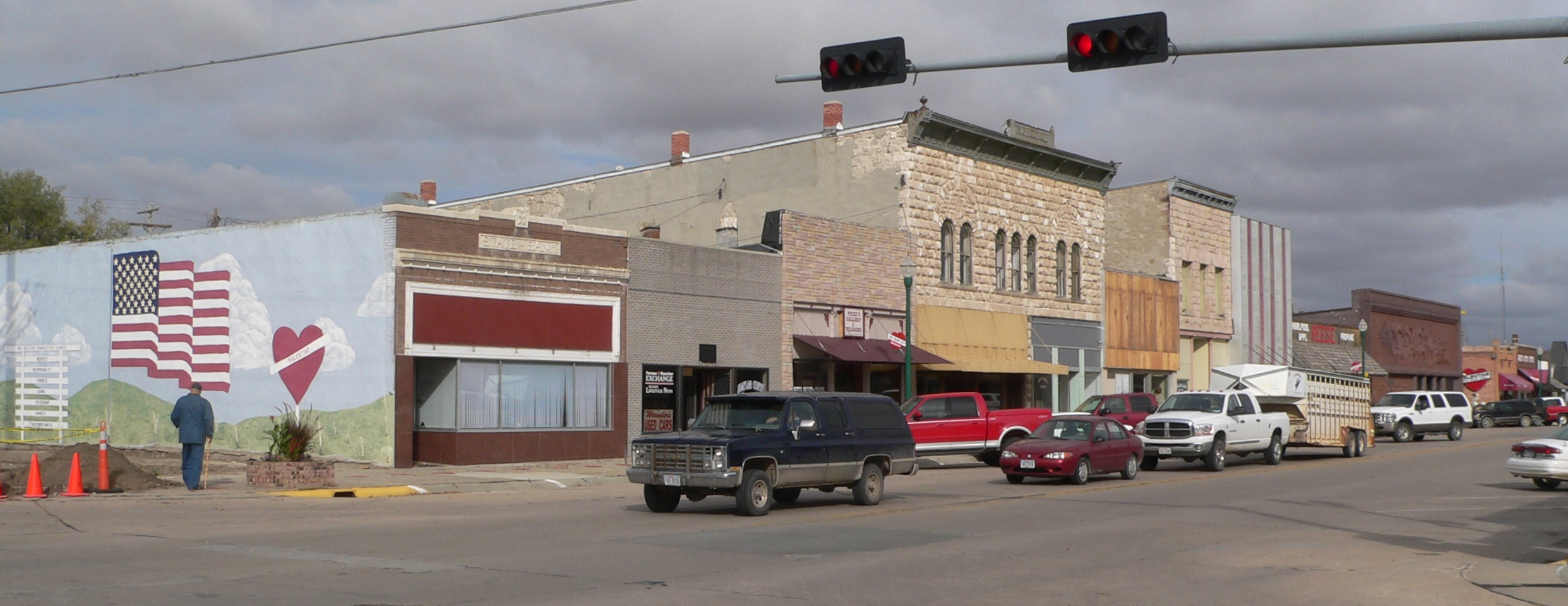 Downtown Valentine, Nebraska: west side of Main Street, looking northwest from about 2nd Street.